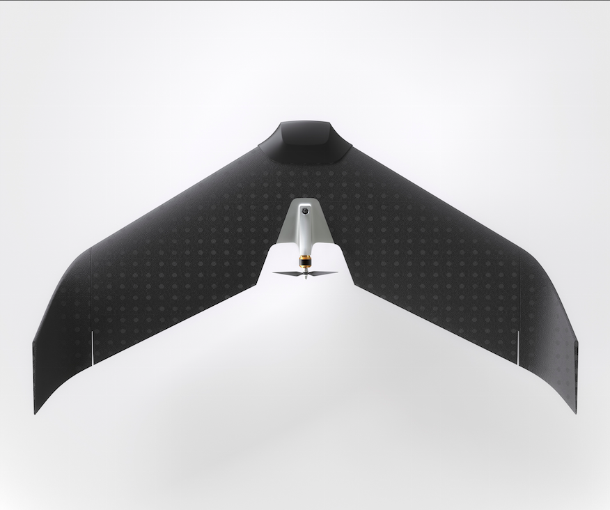 Lehmann Aviation L-A series line of fully automatic aircraft released in 2016